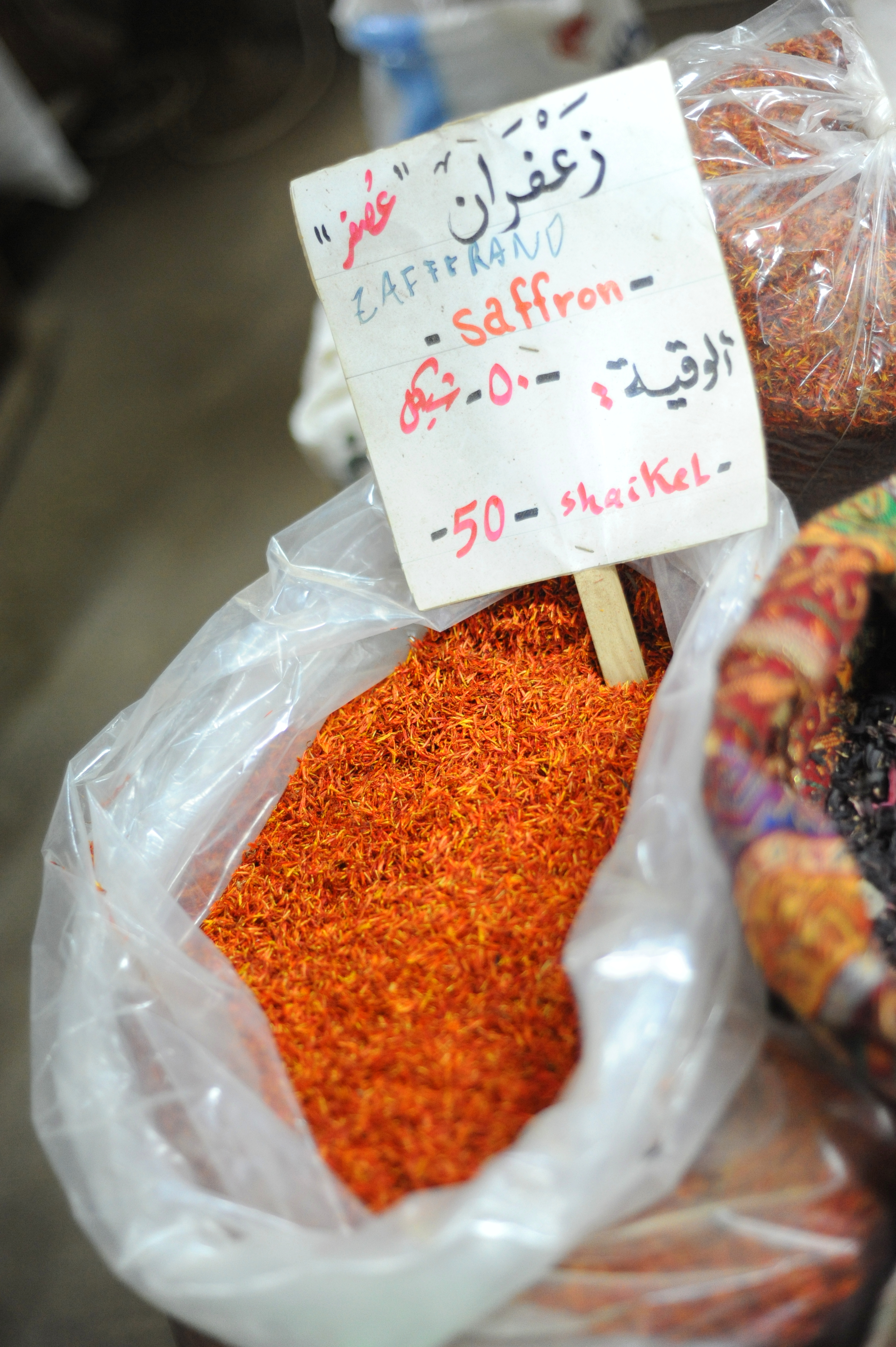 Saffron at a spice shop in the old city of Nablus, West Bank